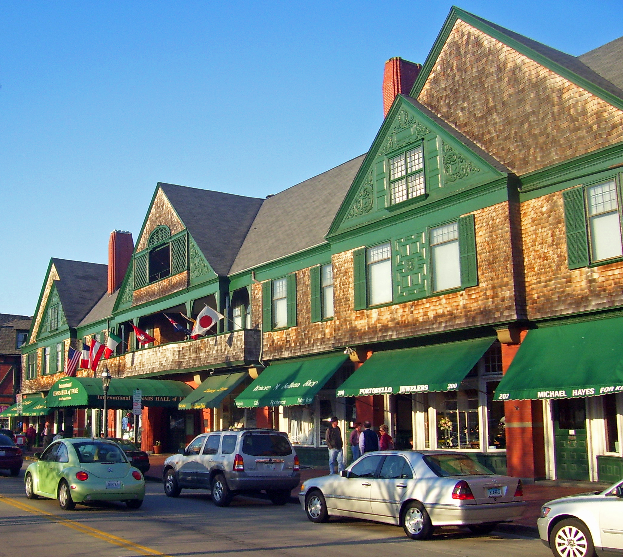 Newport Casino, Newport, RI, USA, from across Bellevue Avenue